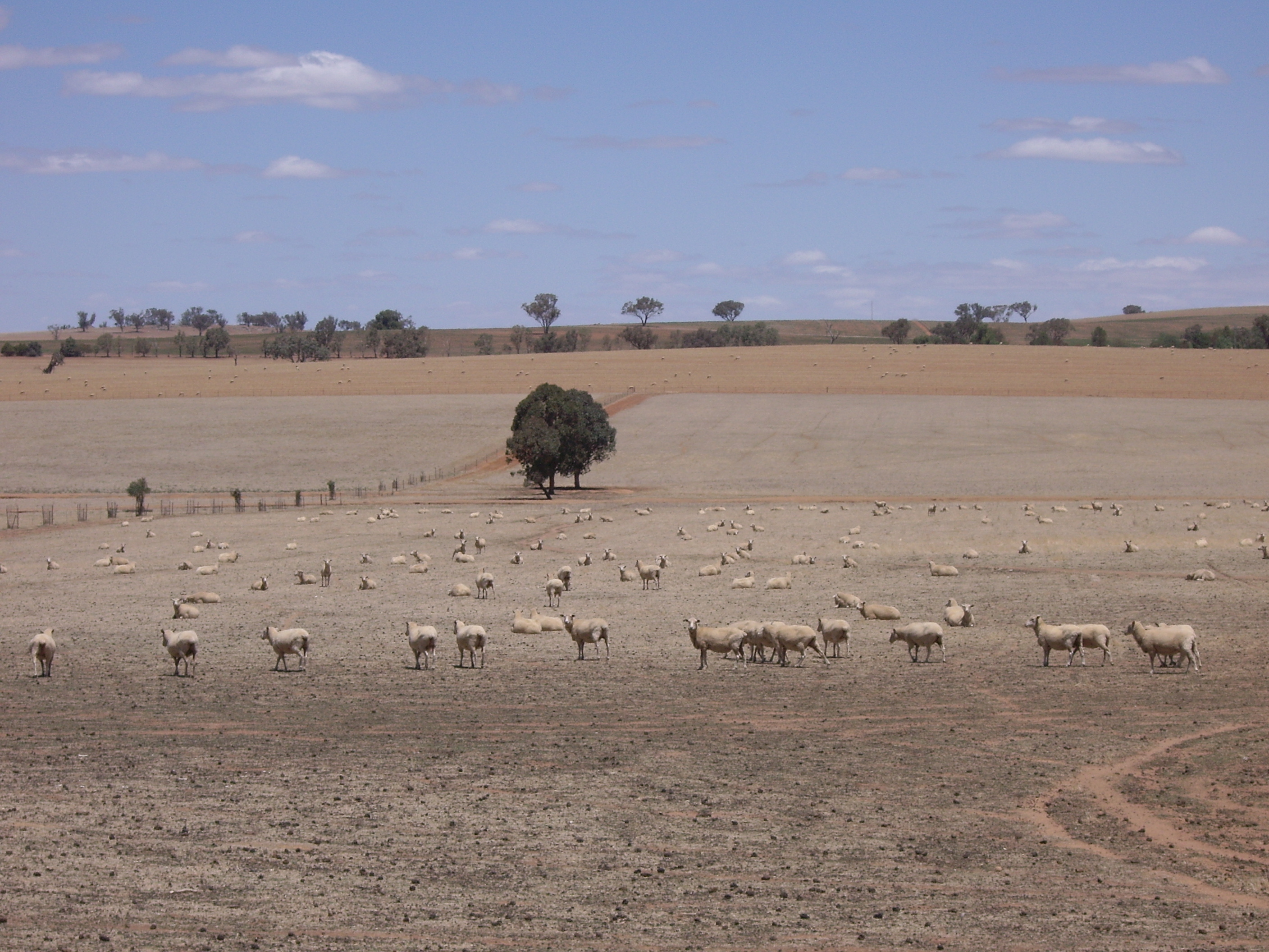 Photograph taken by VirtualSteve. Full catalogue of all my images uploaded to Wikipedia available here Images